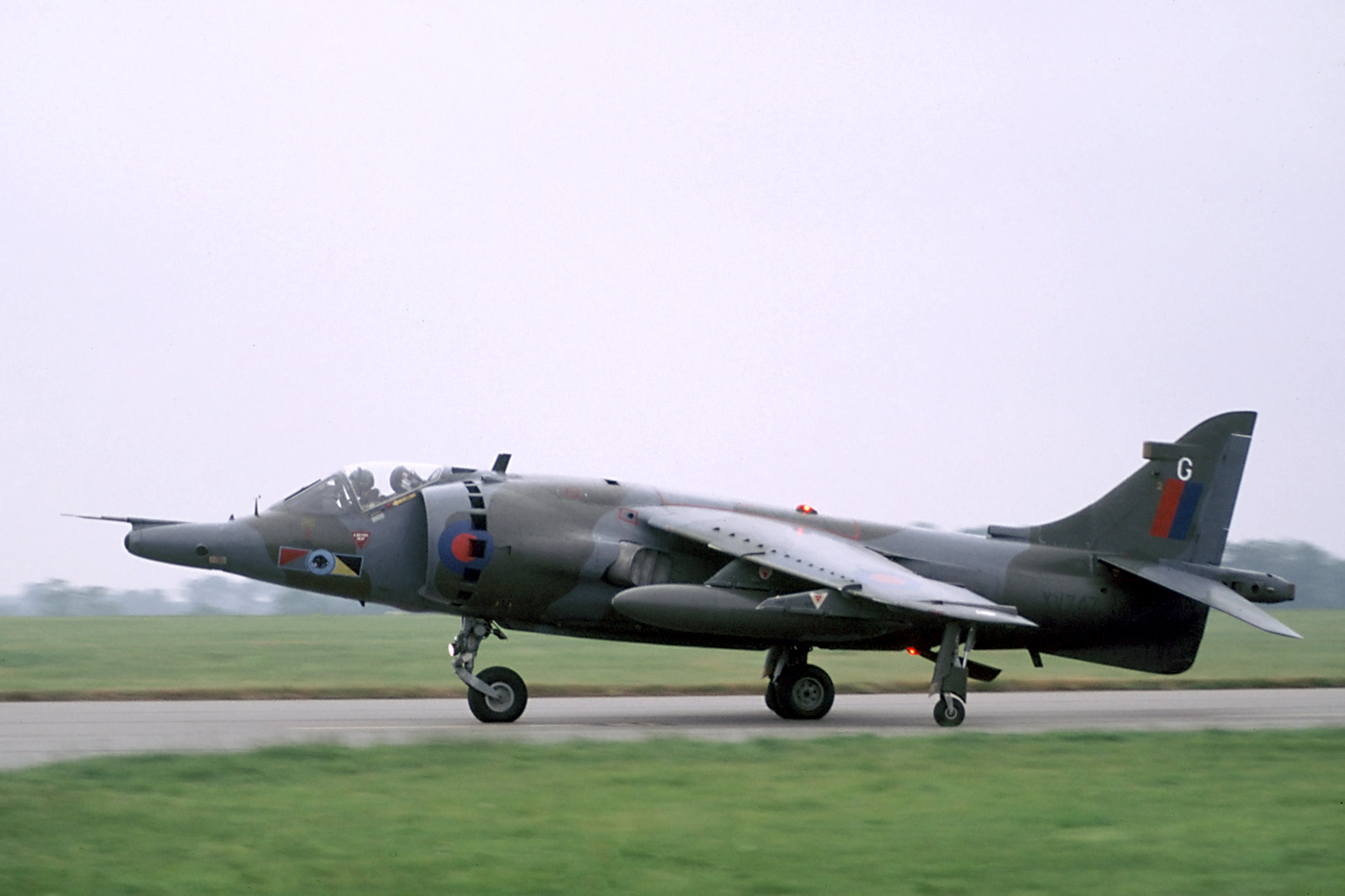 XV747 of 233 Operational Conversion Unit in typical British weather, taxiing at RAF Wittering in July 1987. Four months later XV747 was written off - the pilot escaped with his ejection seat. November 1987 was a disastrous month as three Harriers were lost.